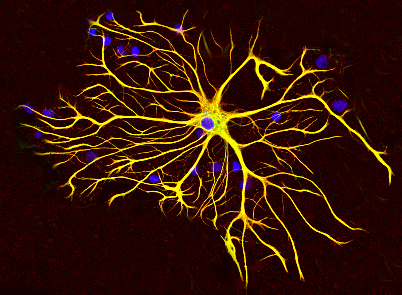 An astrocyte cell grown in tissue culture stained with antibodies to GFAP and vimentin. The GFAP is coupled to a red fluorescent dye and the vimentin is coupled to a green fluorescent dye. Both proteins are present in large amounts in the intermediate filaments of this cell, so the cell appears yellow, the result of combining strong red and green signals. The blue signal is DNA revealed with DAPI, and shows the nucleus of the astrocyte and of other cells in this image. Image was captured on a confocal microscope in the EnCor Biotechnology laboratory.